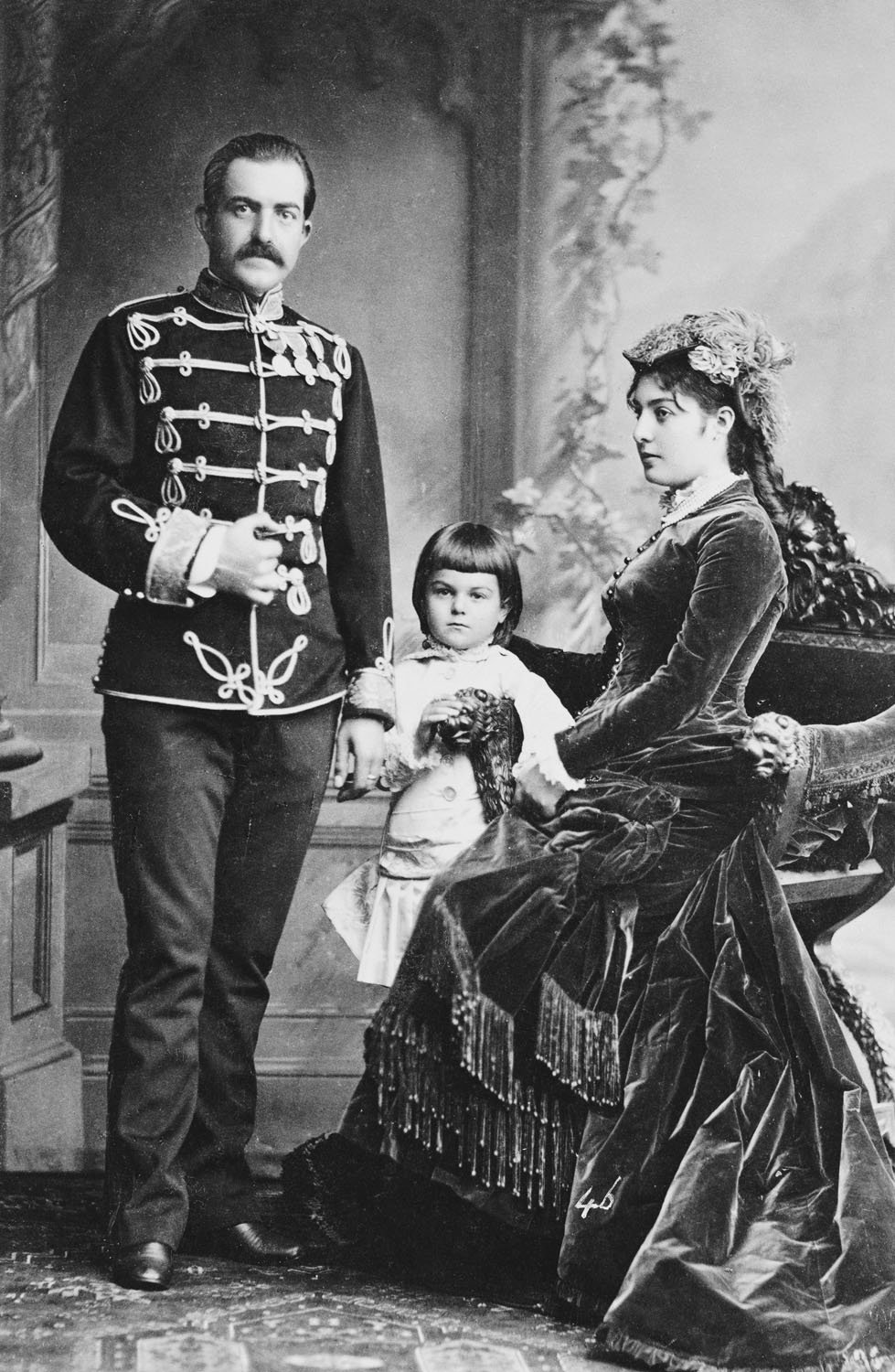 King Milan and Queen Natalie of Serbia with their son, Prince Alexander, c.1880. [Album: Photographs. Royal Portraits, 1876-1898]